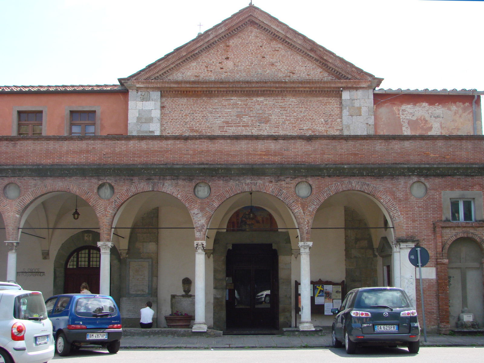 Outside the church of Santa Croce in Fossabanda